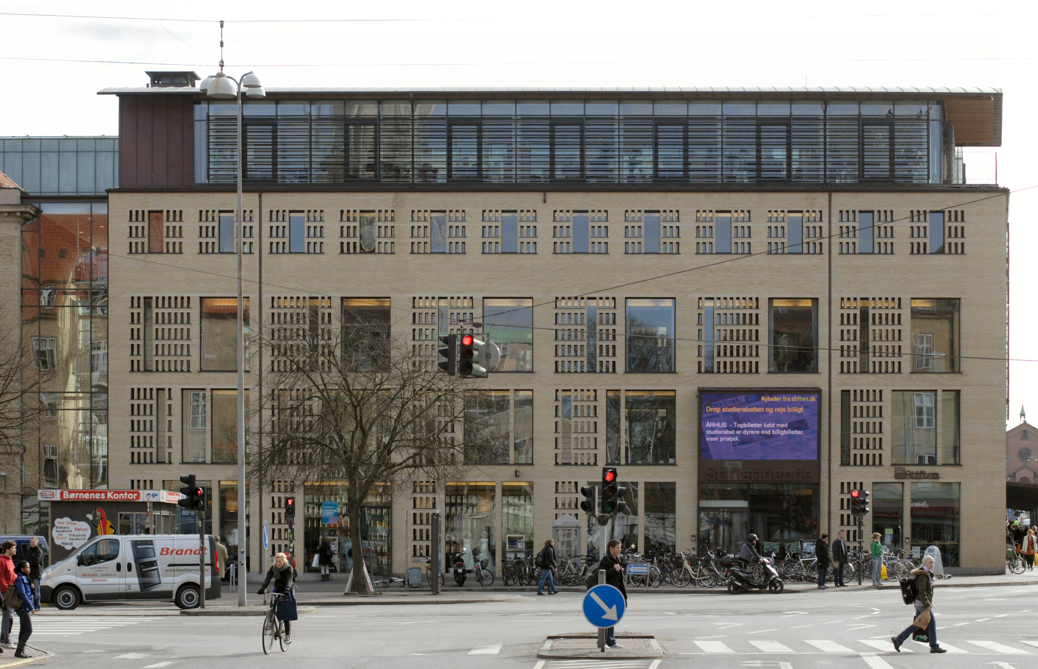 Banegårdshuset from 2005, at the square of Banegårdspladsen in Aarhus is the headquarters of local newspaper Århus Stiftstidende.